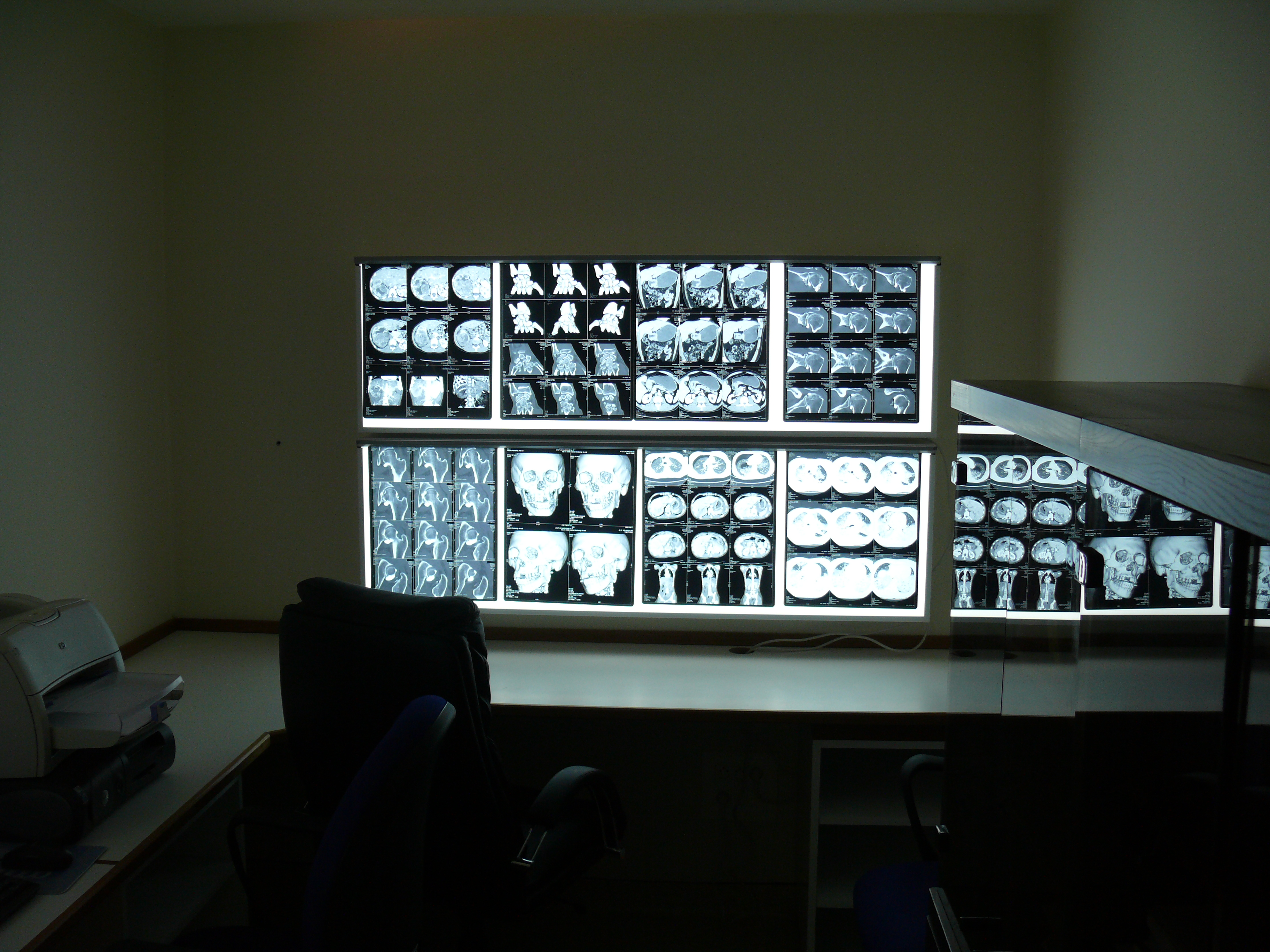 A radiology room in a hospital with x-rays to be examined.